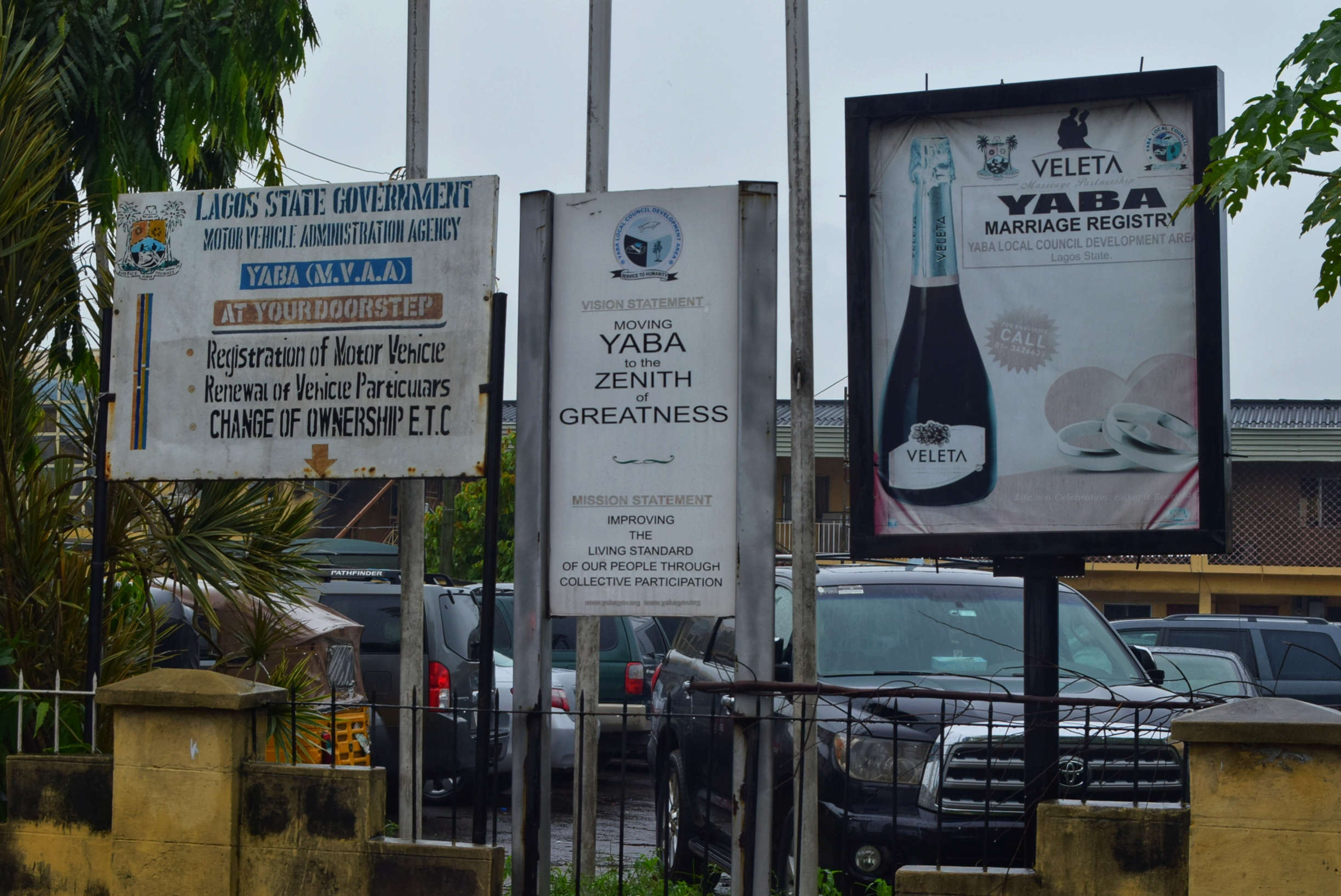 The Yaba Local Council Development Area of Lagos State, by Adekunle Bus Stop. Beside the State C.I.D, Panti.